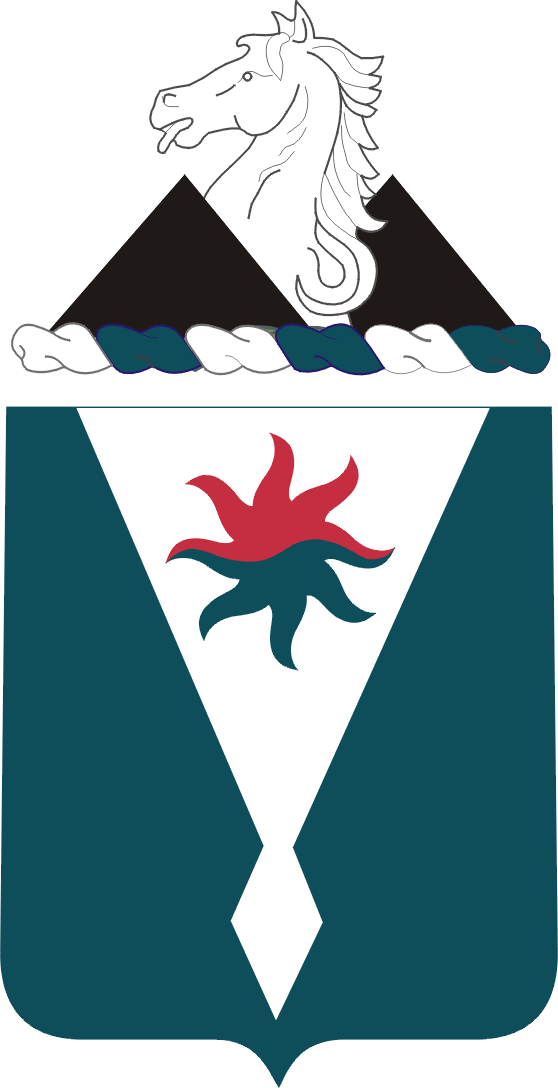 101st aviation regiment coat of arms